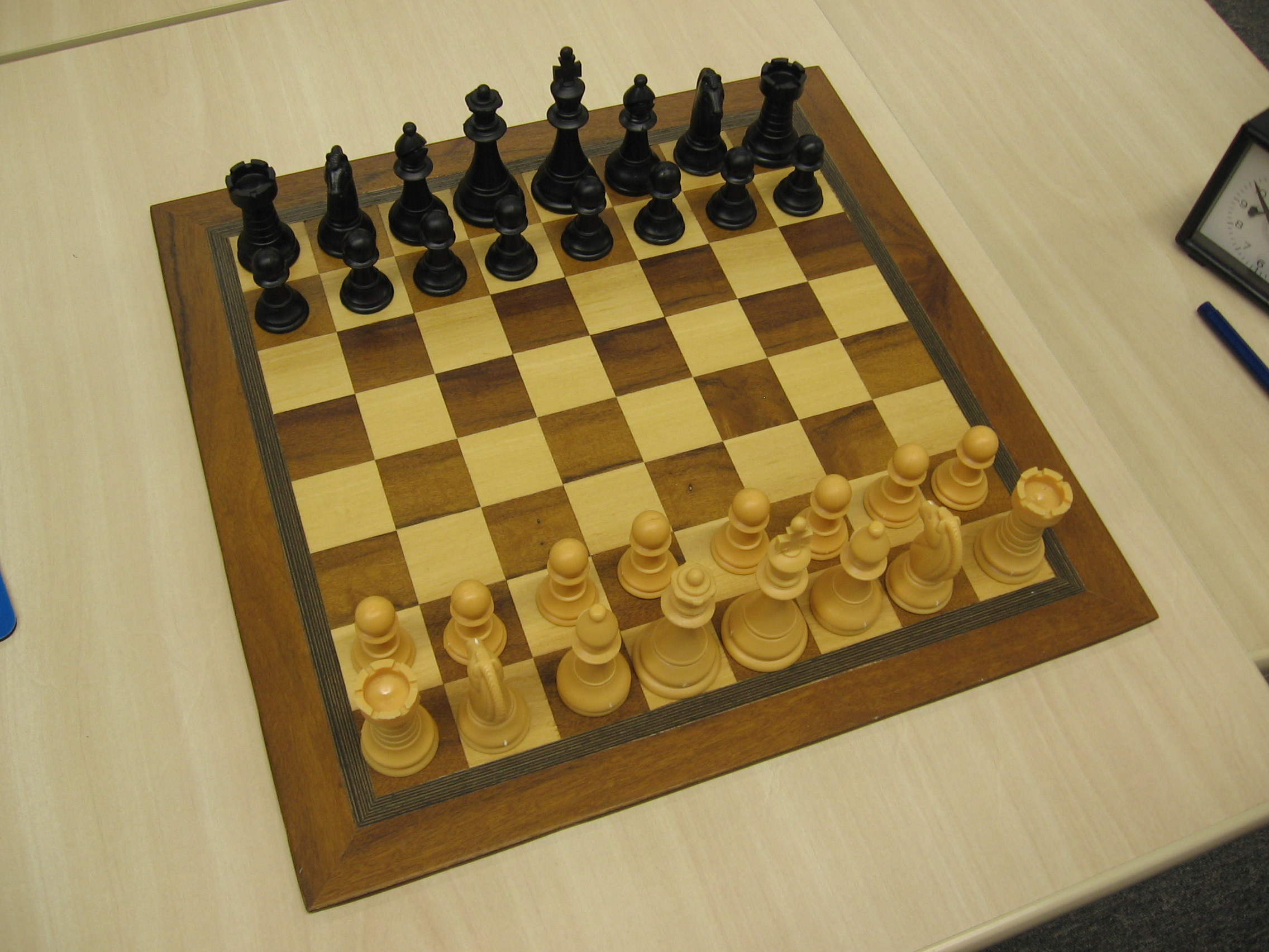 Example of the starting position of chess pieces